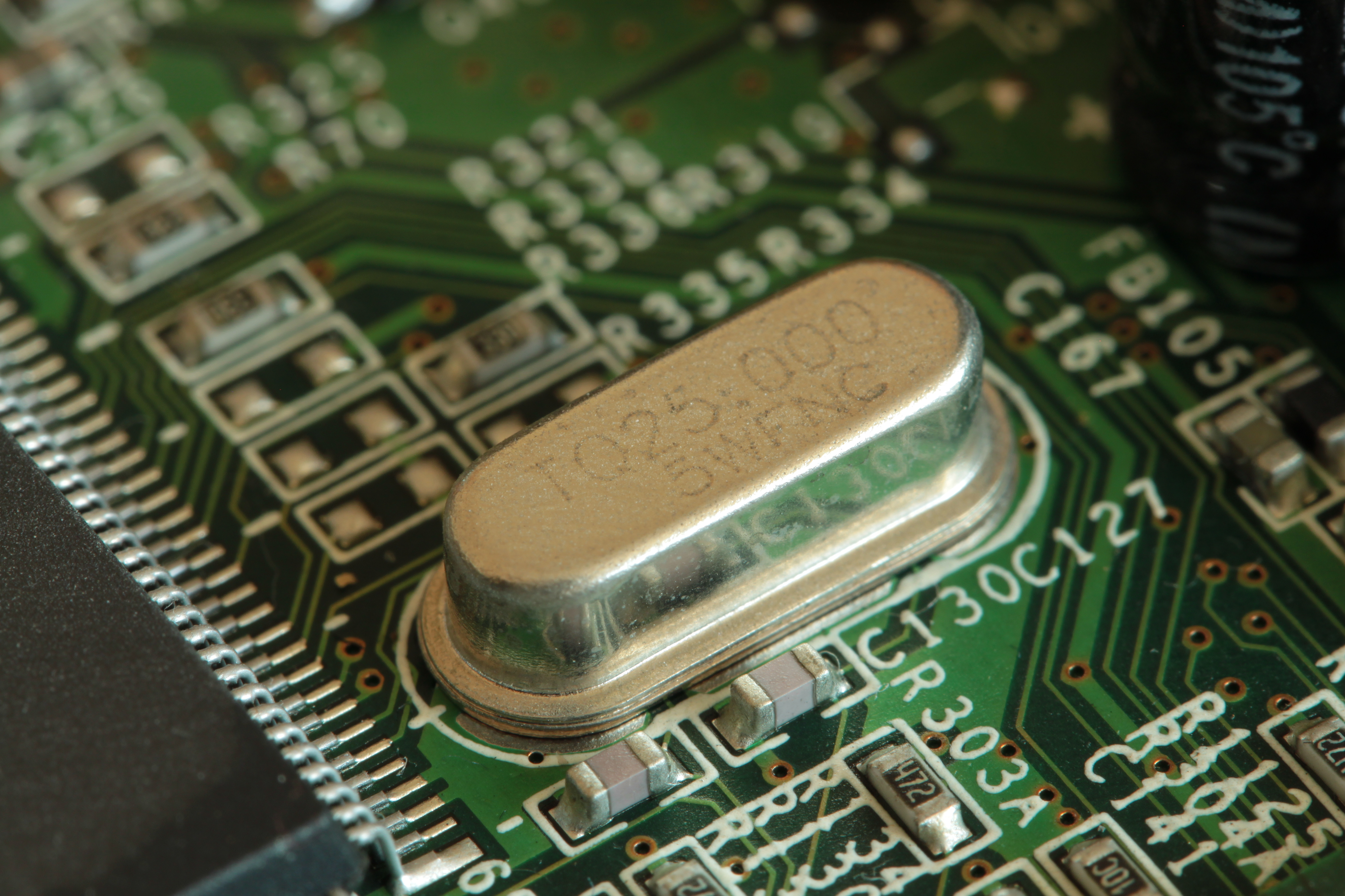 Crystal oscillator (25 MHz) in a 3Com OfficeConnect ADSL Wireless 11g Firewall Router (3CRWDR100Y-72)